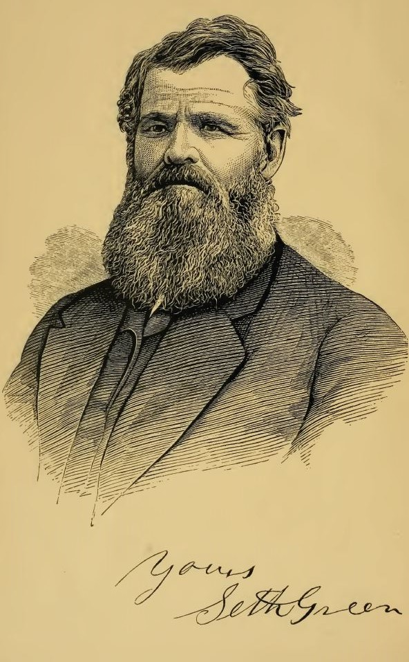 Seth Green, Front piece from Green, Seth (1870) Trout Culture (pdf), Rochester, New York: Seth Green and A.S. Collins